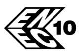 European Approval Mark for Electrotechnical Products